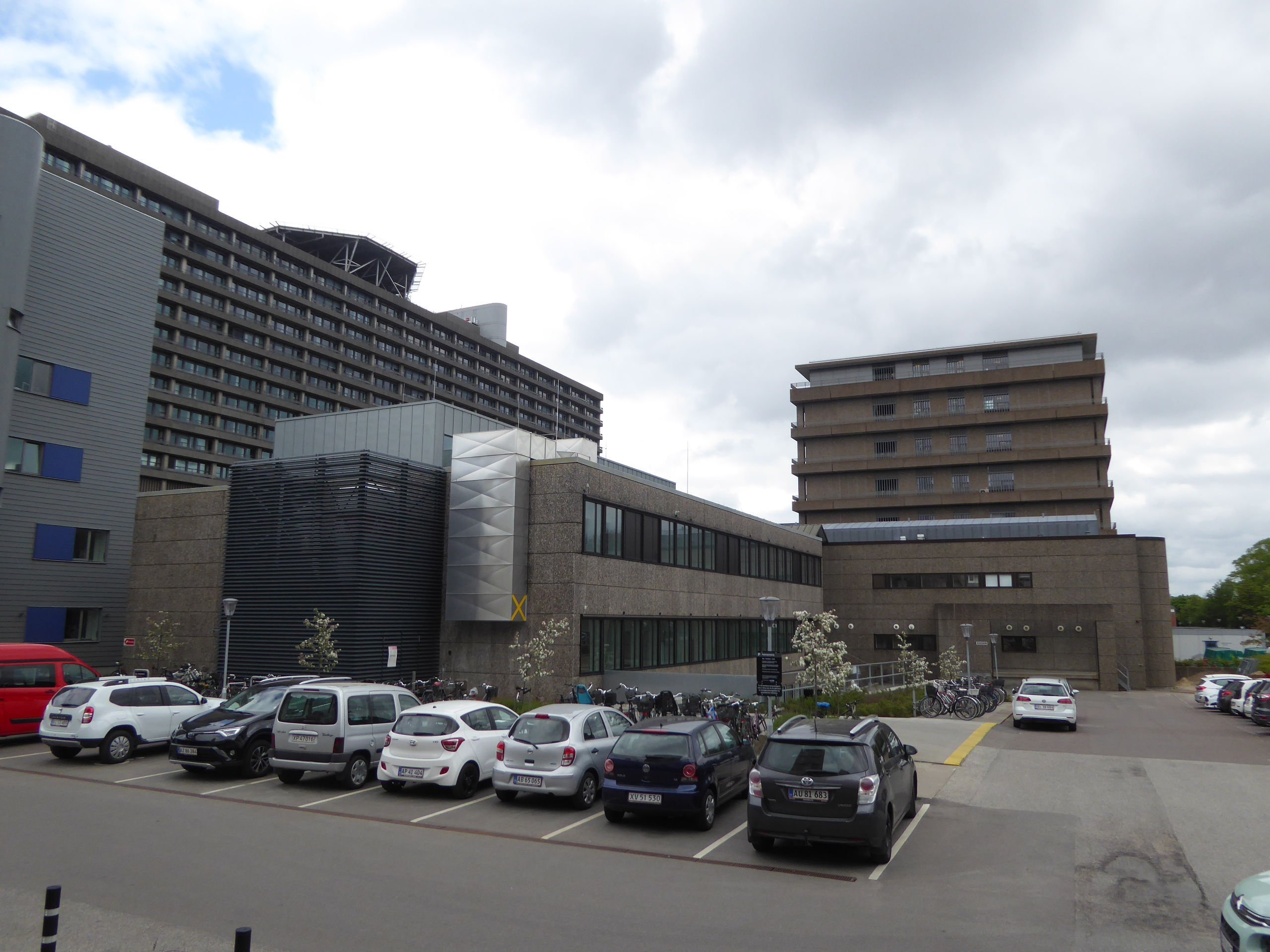 The pharmacy of Region Hovedstaden at the corner of Esther Møllers Vej and Juliane Maries Vej in Østerbro in Copenhagen.